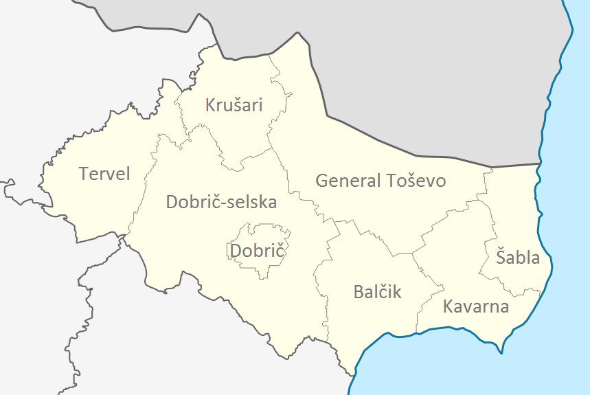 Croatian names on map of Dobrich District (Bulgaria)